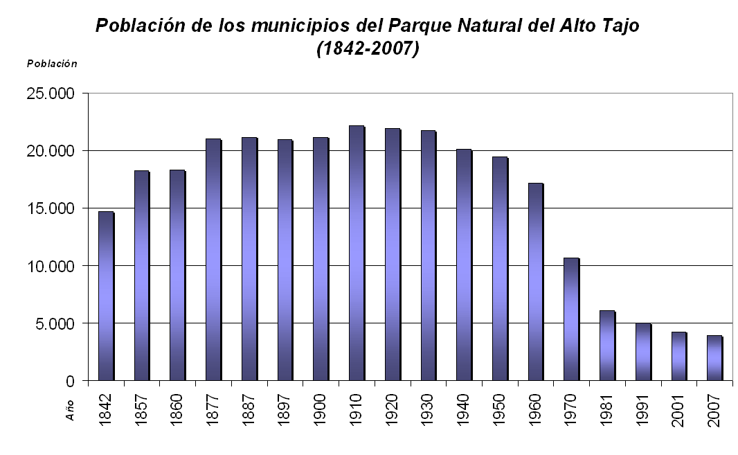 Graph of total population in the municipalities that the Alto Tajo Natural Park includes between 1842 and 2007.